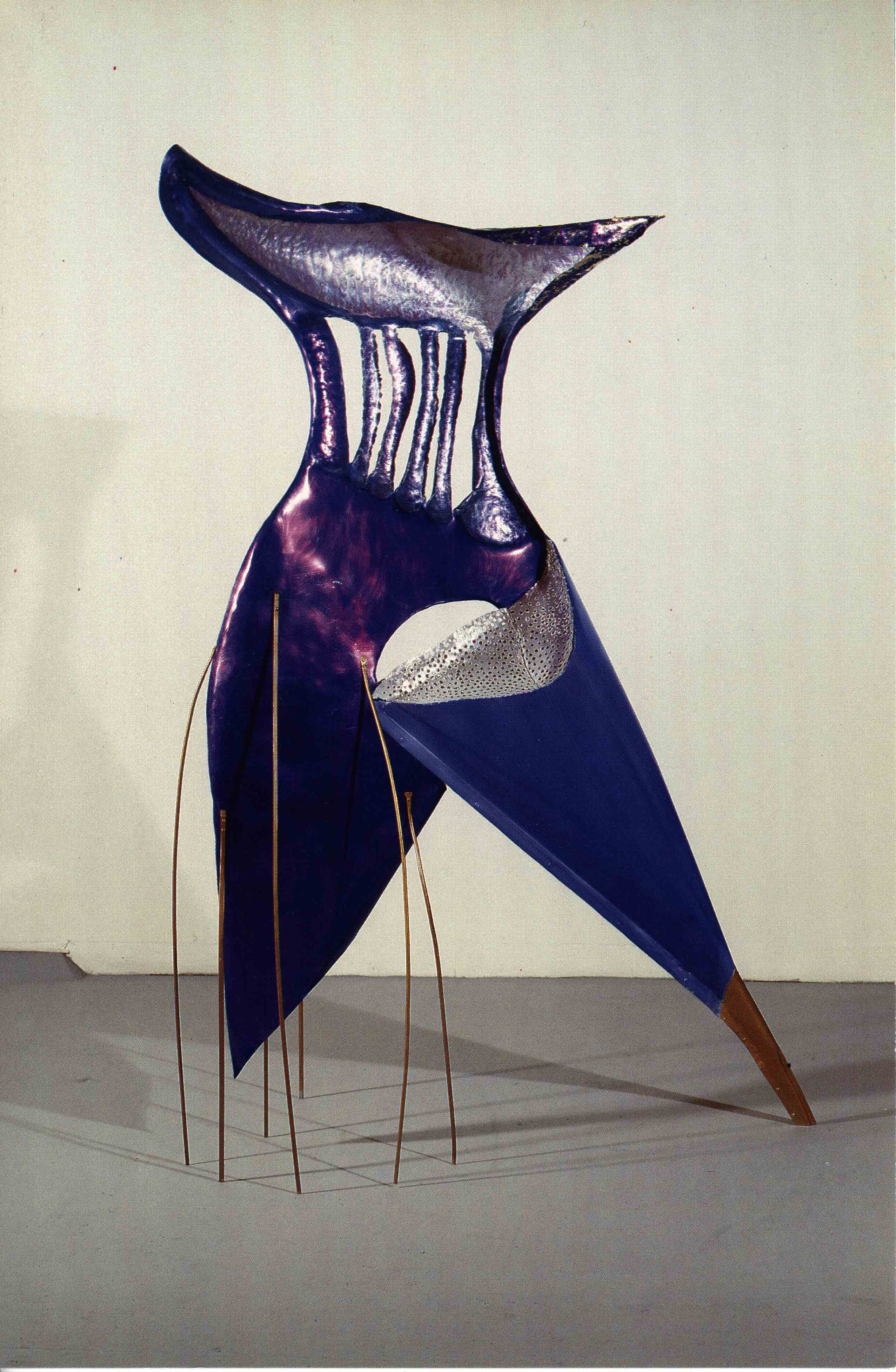 Painted aluminium sculpture